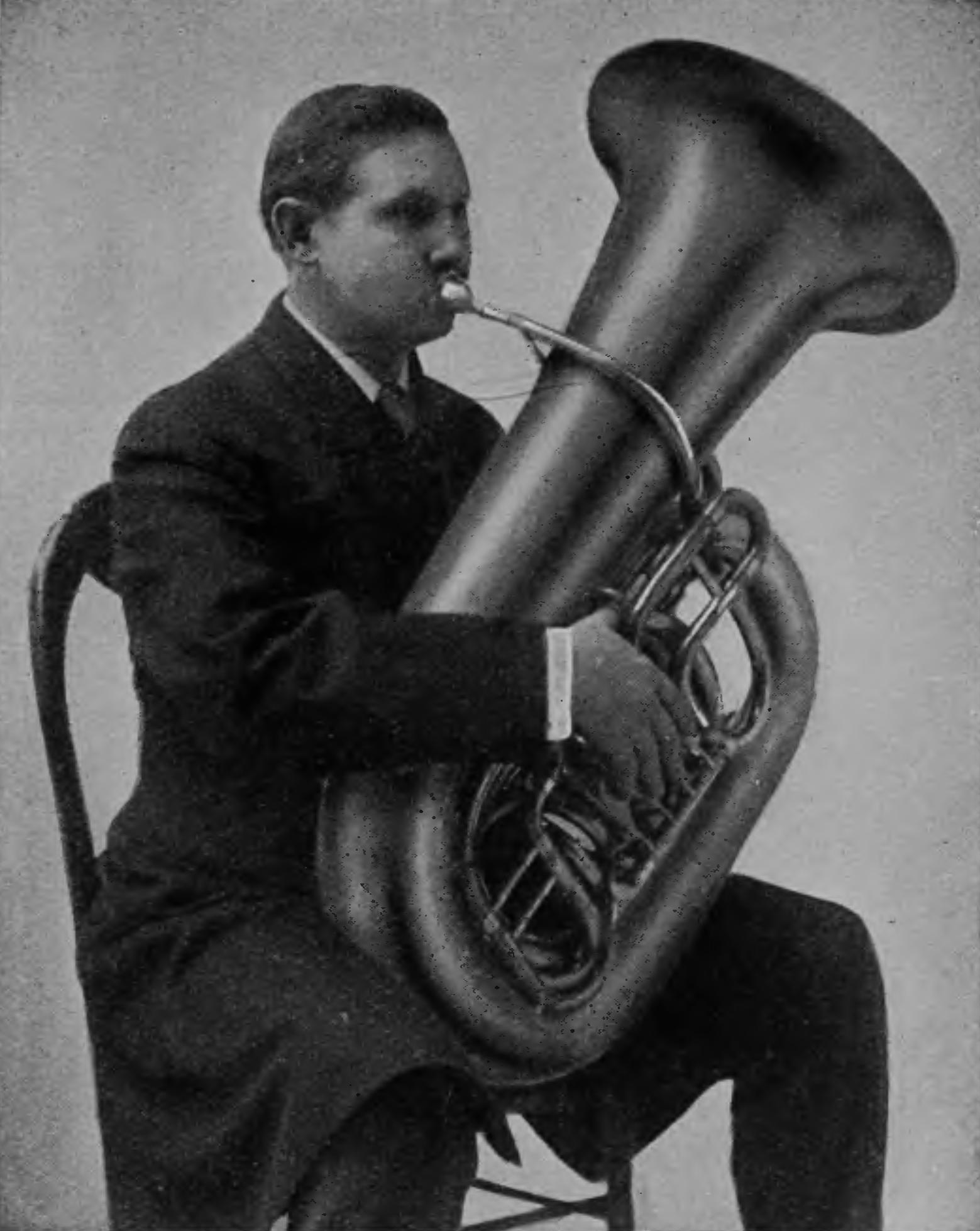 Fred. Geib N. Y. Philharmonic Orchestra